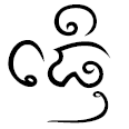 Lanna script – Thoen is a district (amphoe) in the southern part of Lampang Province, northern Thailand.